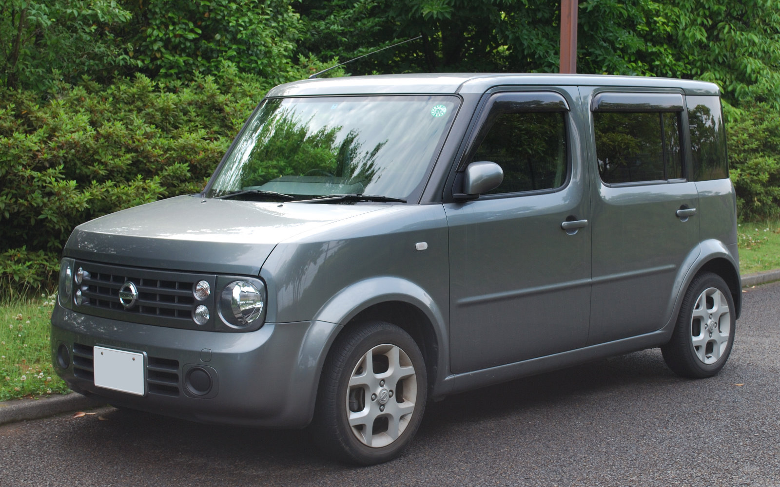 NIssan Cube³ (2005/5 - 2006/12)